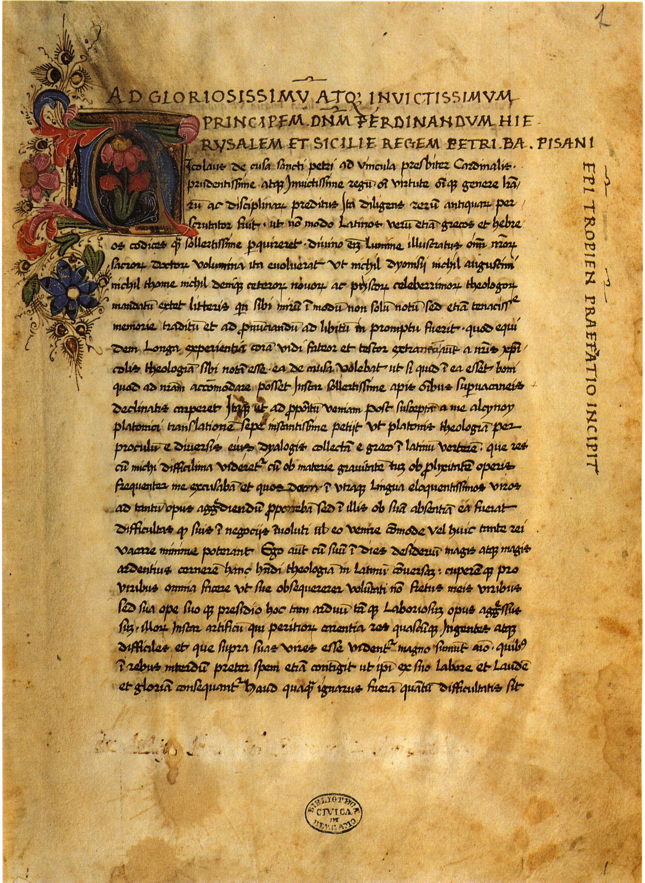 Pietro Balbi, Dedication letter to king Ferdinand I of Naples on Balbi’s Latin translation of Proclus, Theologia Platonica, in ms. Bergamo, Civica Biblioteca Angelo Mai, MA 490, fol. 1r.